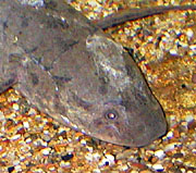 Lepidosiren paradoxa, or South American lungfish.